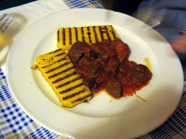 "Cavàeo in Umido" with grilled polenta. Typical dish from Padua - Veneto - Italy. Horse Meat Stew. Also said "Spessadin de Cavàeo".